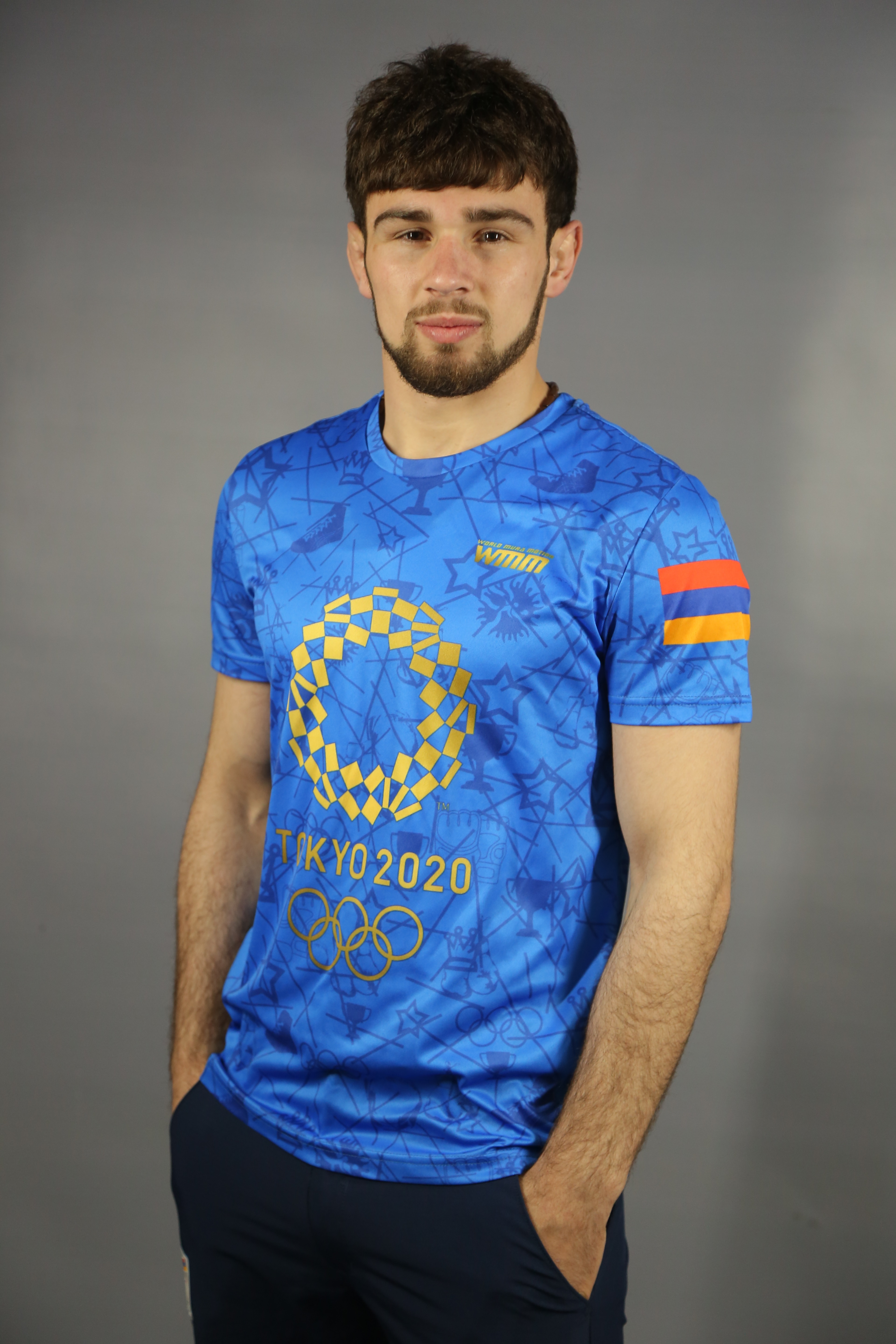 Arsen Harutyunyan